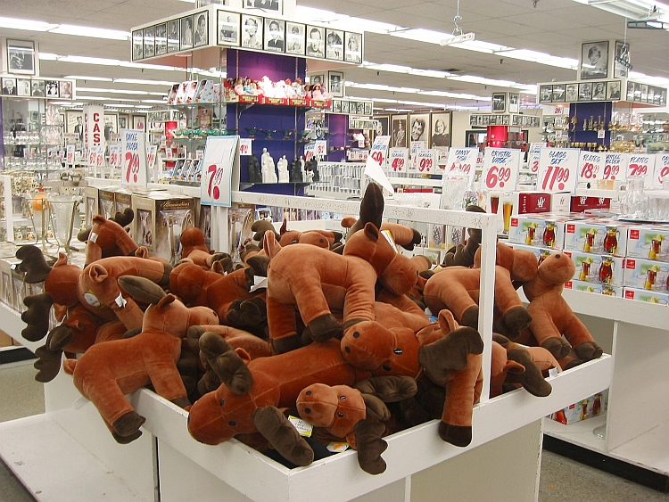 Moose toys at Honest Ed's department store, Toronto.